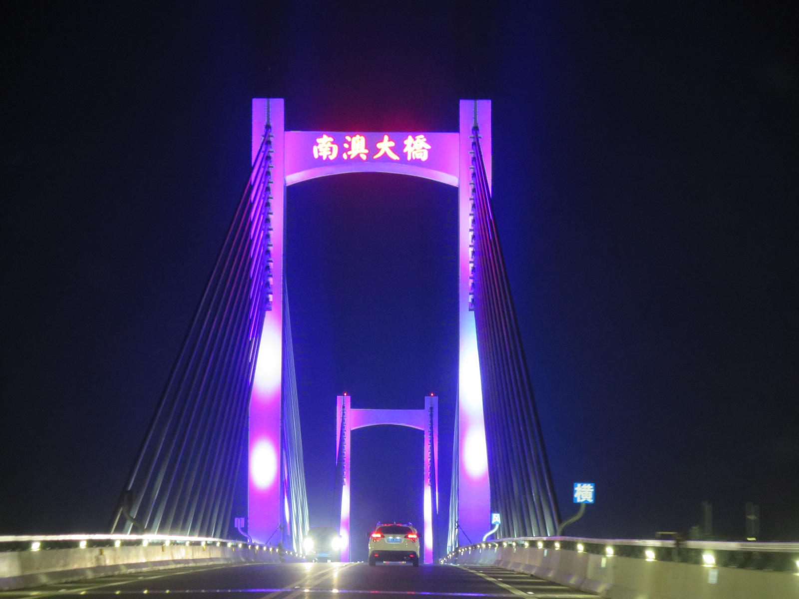 Shantou Nao'ao Bridge